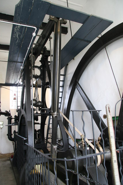 Pinchbeck pumping station